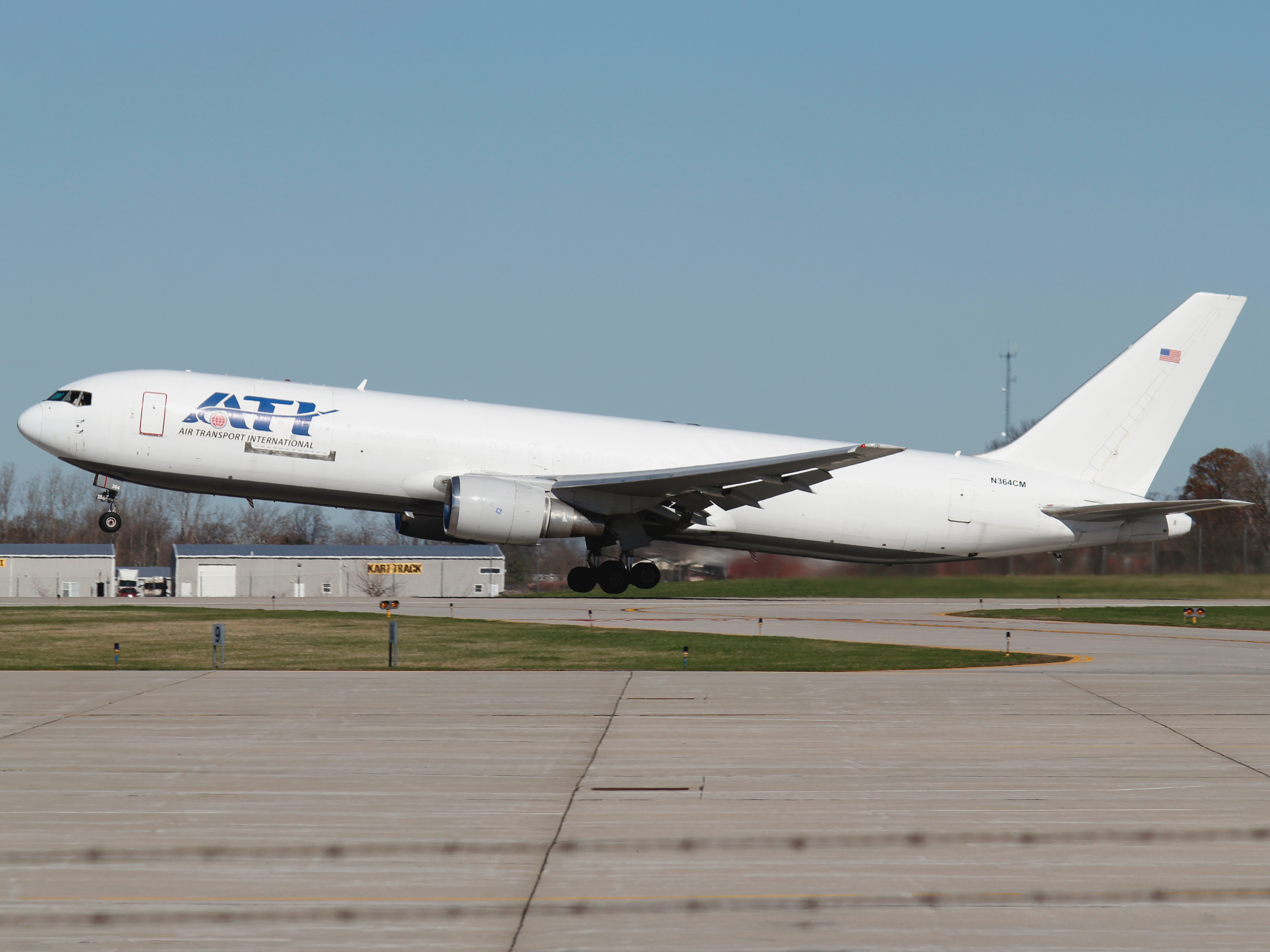 Air Transport International 767-300 Departing KILN